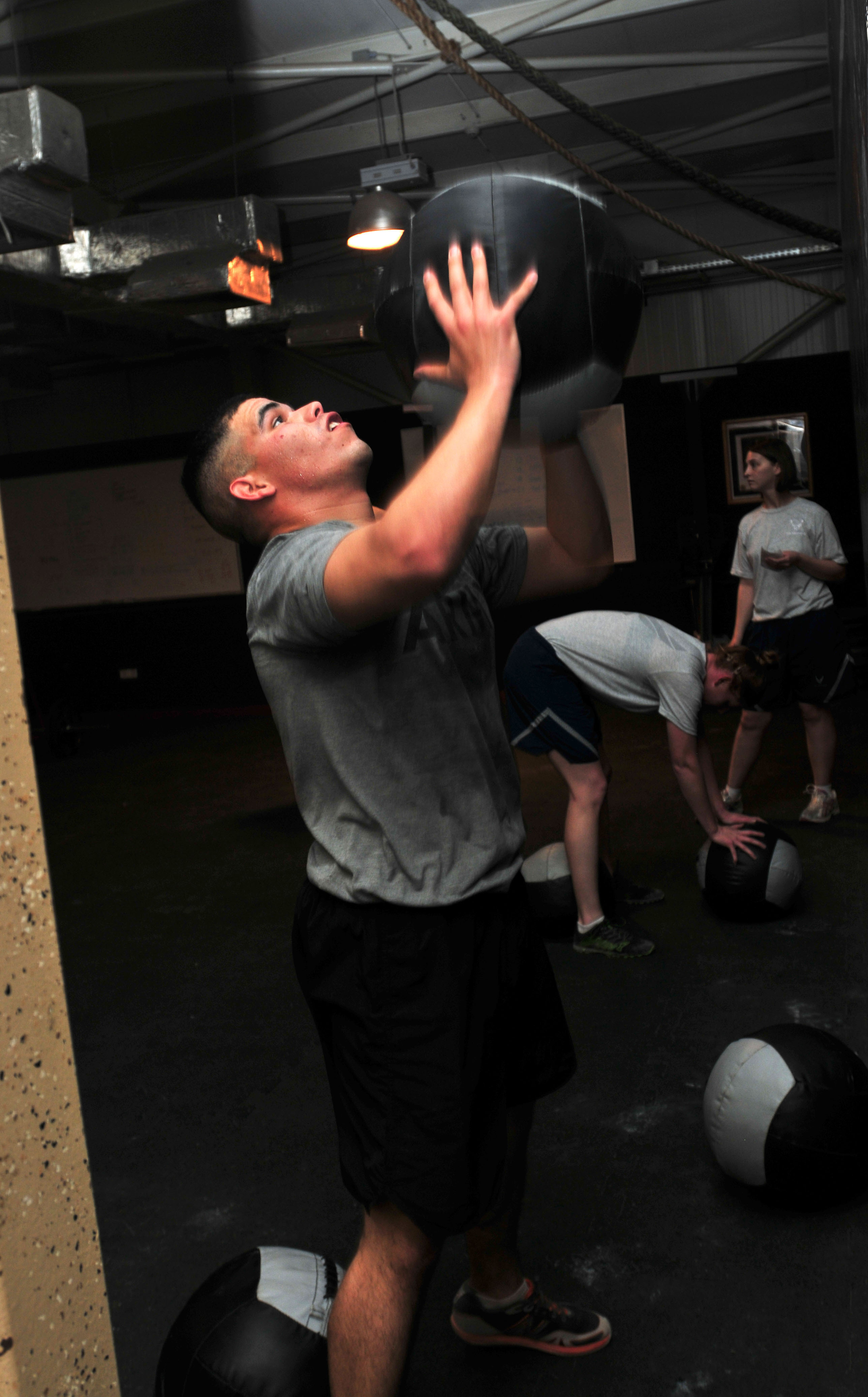 Capt. Jacob Lopez, a battle captain with 2nd Brigade Combat Team (Advise and Assist), 1st Cavalry Division, U.S. Division-North, tosses a medicine ball during training at Joint Base Balad, Iraq, Sept. 18.